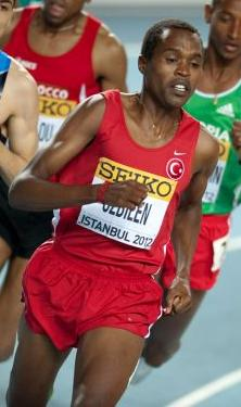 This is the cut of a portion of the file.